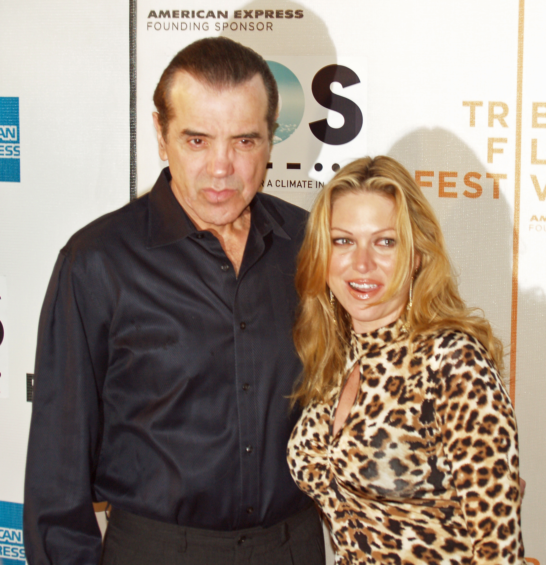 Chazz Palminteri and wife